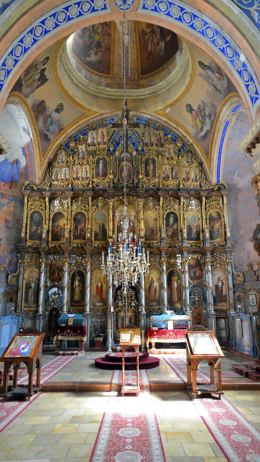 Iconostasis in Church of Saint John forerunner in Vrdnik